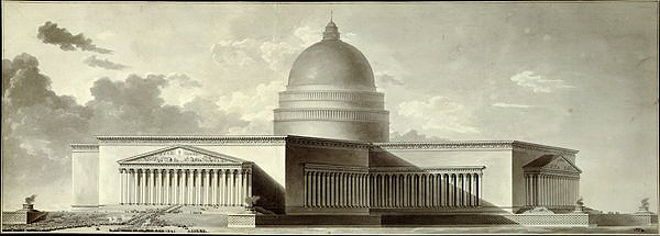 Architectural drawing of a church for the Cult of the Supreme Being, named Métropole.